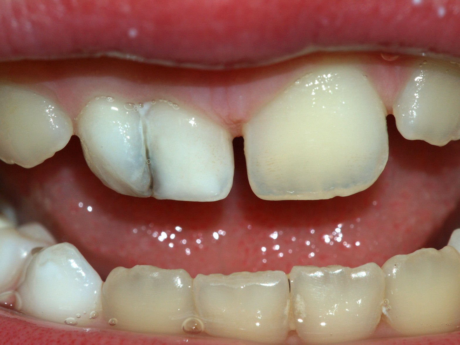 Milk teeth of a nine year old boy, showing tooth fusion. The mother of the child told me that their dentist considered this a rare phenomenon, as each tooth has its own root (otherwise it would be gemination). DE:Zahnfehlbildung, verschmolzenen Schneidezähen Oberkiefer